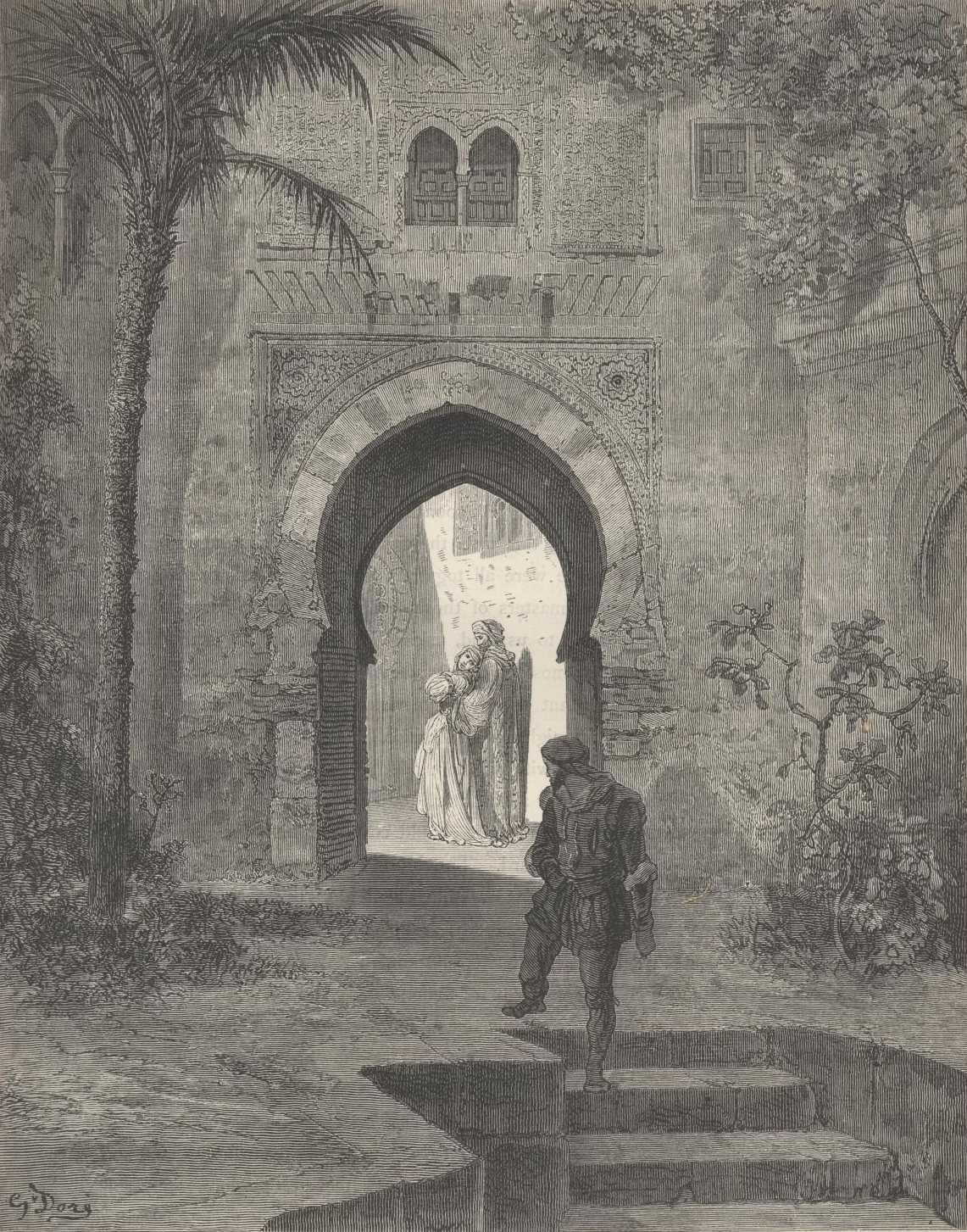 Don Quijote Illustration by Gustave Dore.